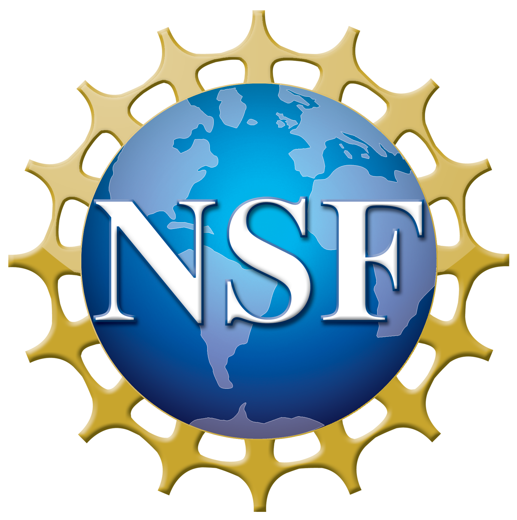 The official logo of the National Science Foundation.